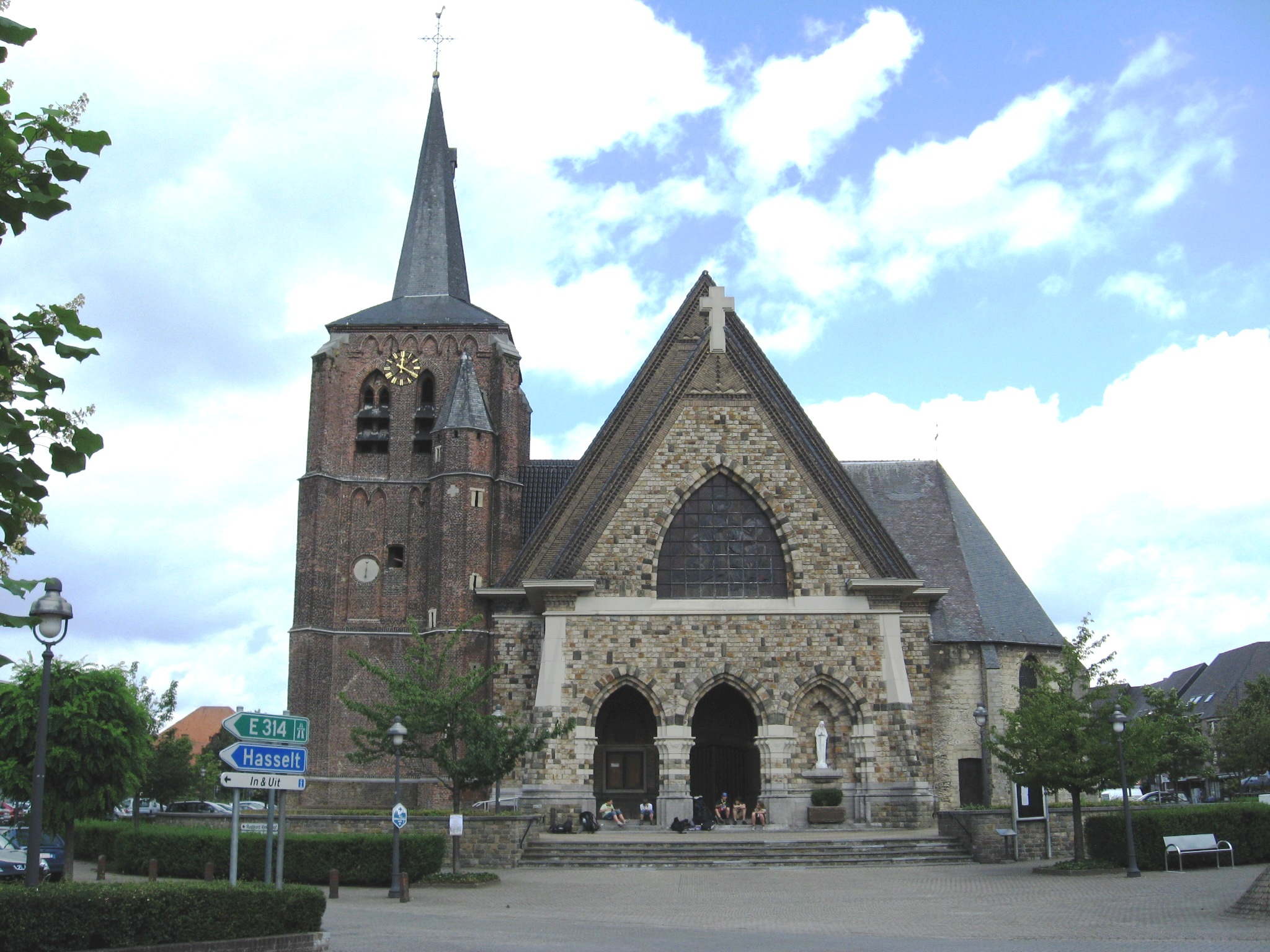 Church of Saint Martin in Houthalen, Limburg, Belgium